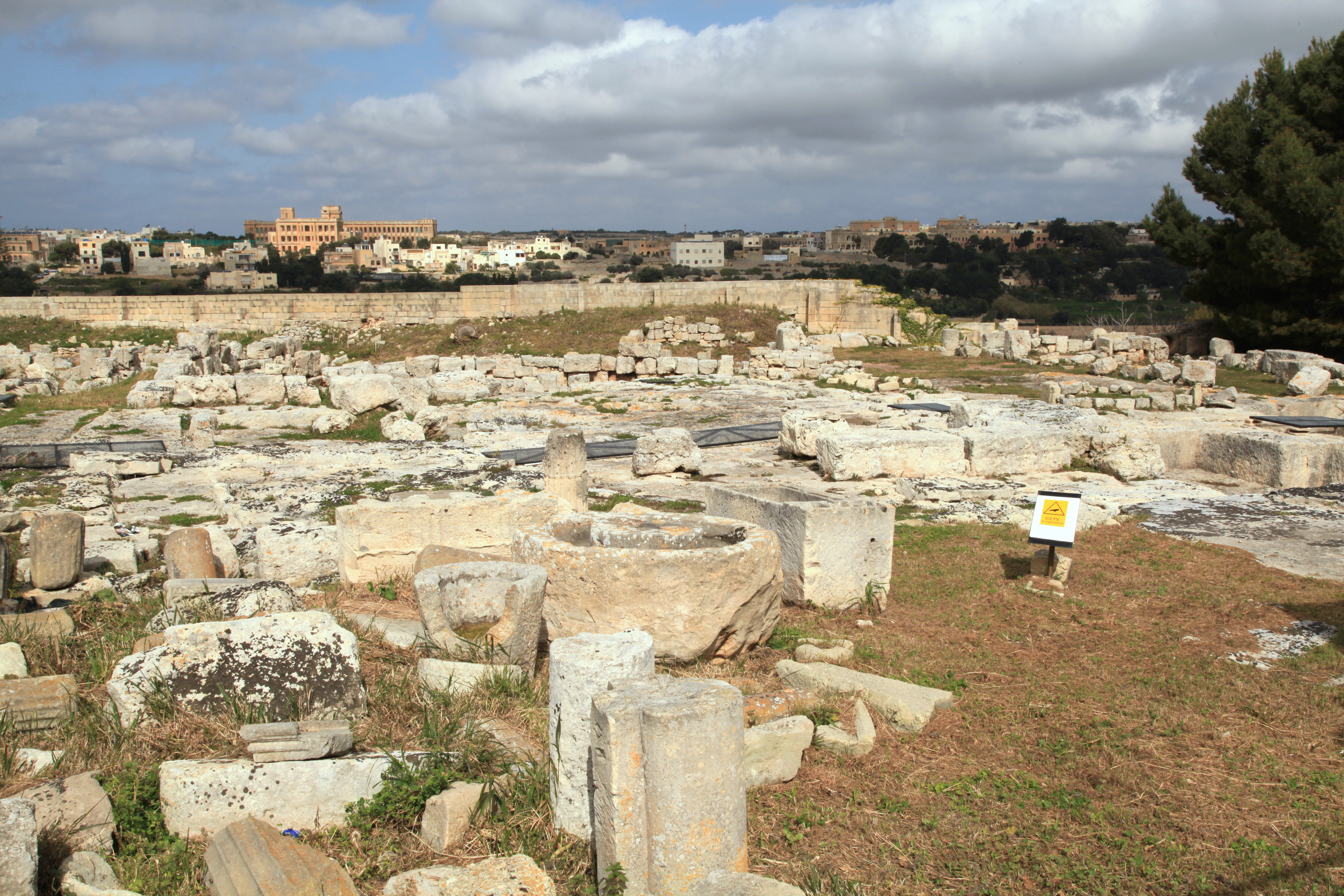 Domus Romana, Wesgħa tal-Mużew in Mdina, Malta